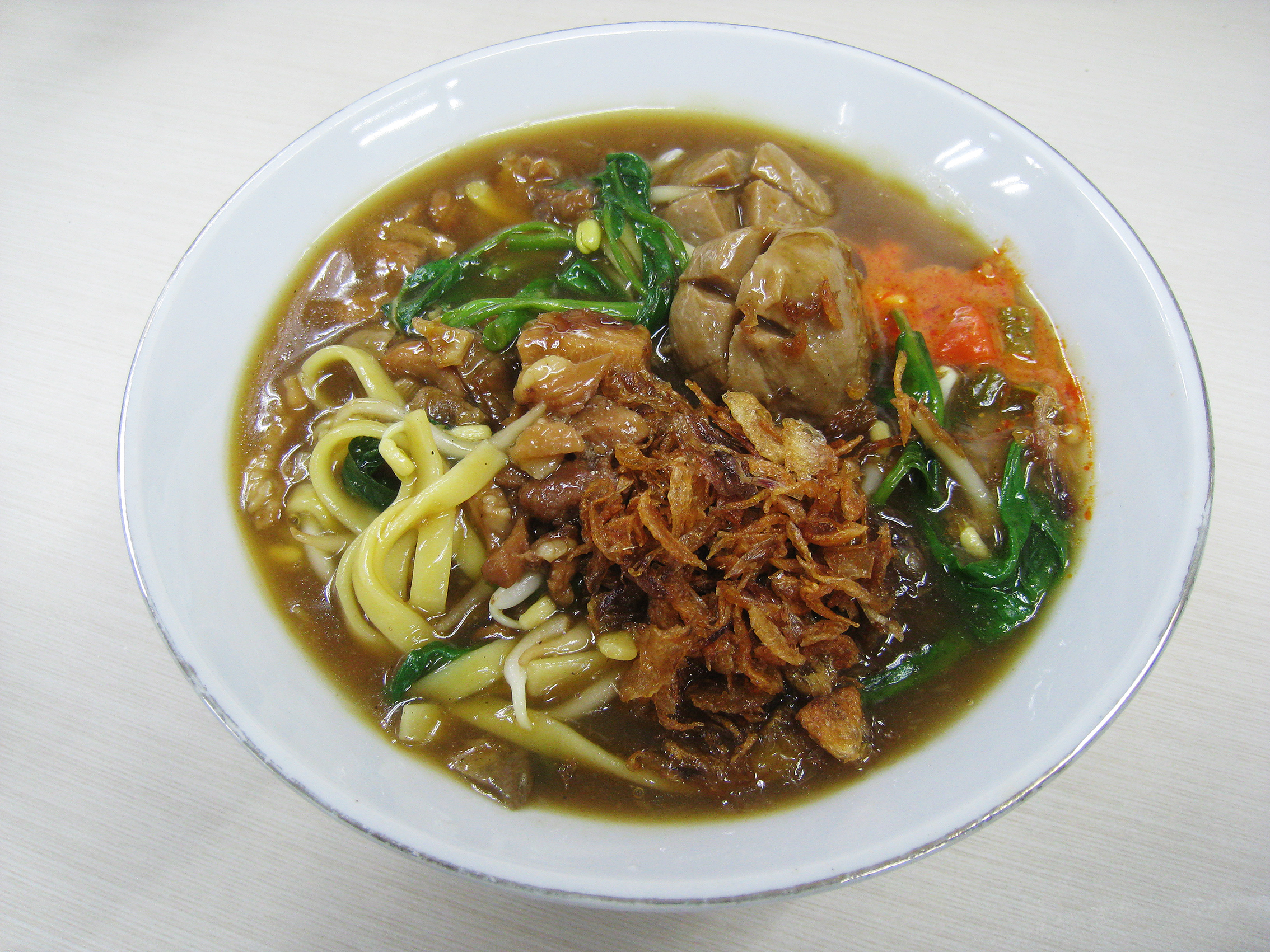 Mie Kangkung, or water spinach noodle with bakso (beef meatball) and spinkled with fried shallot. A Betawi dish served in Jakarta, Indonesia.